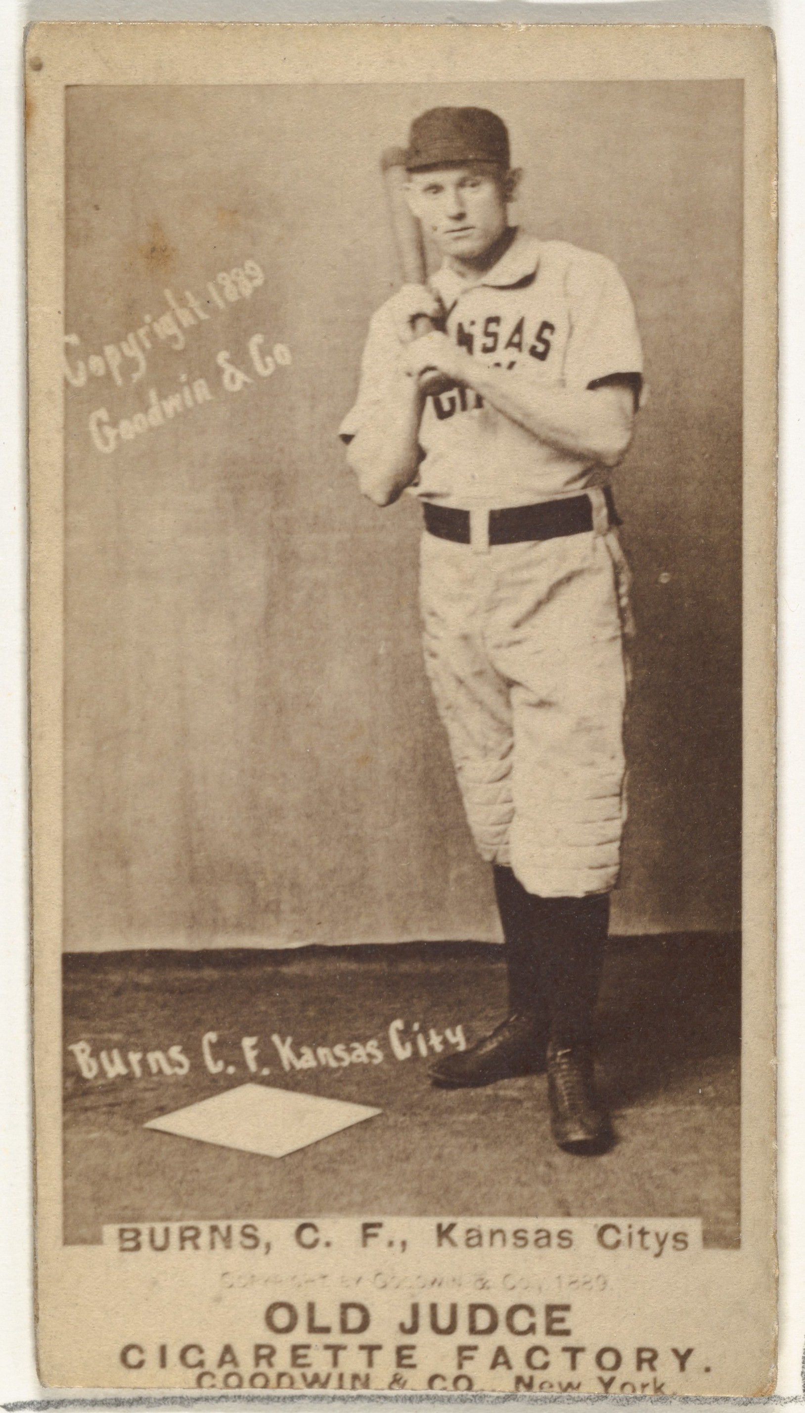 Jim Burns Old Judge card